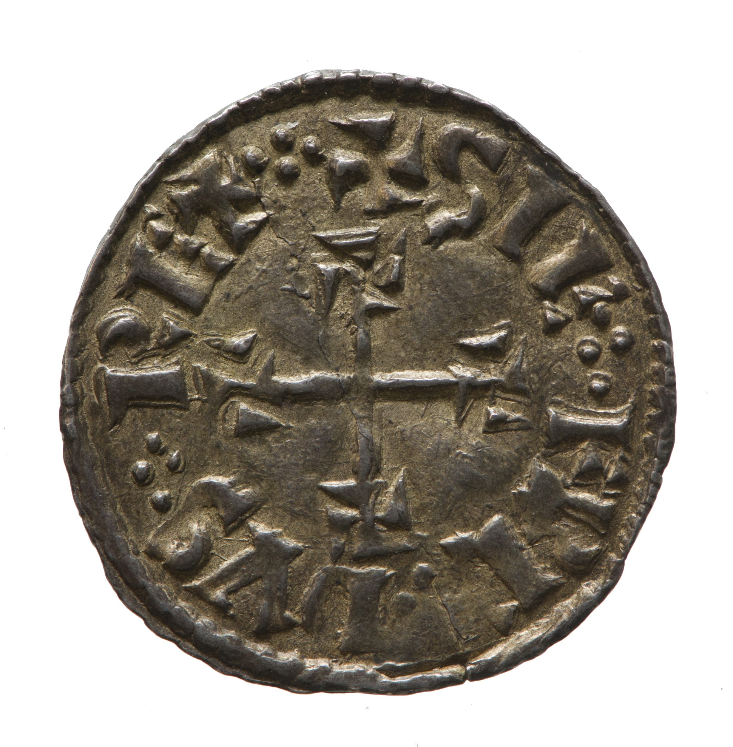 Obverse (front) of a silver penny of Siefredus_of_Northumbria Small cross with four groups of three pellets in field.